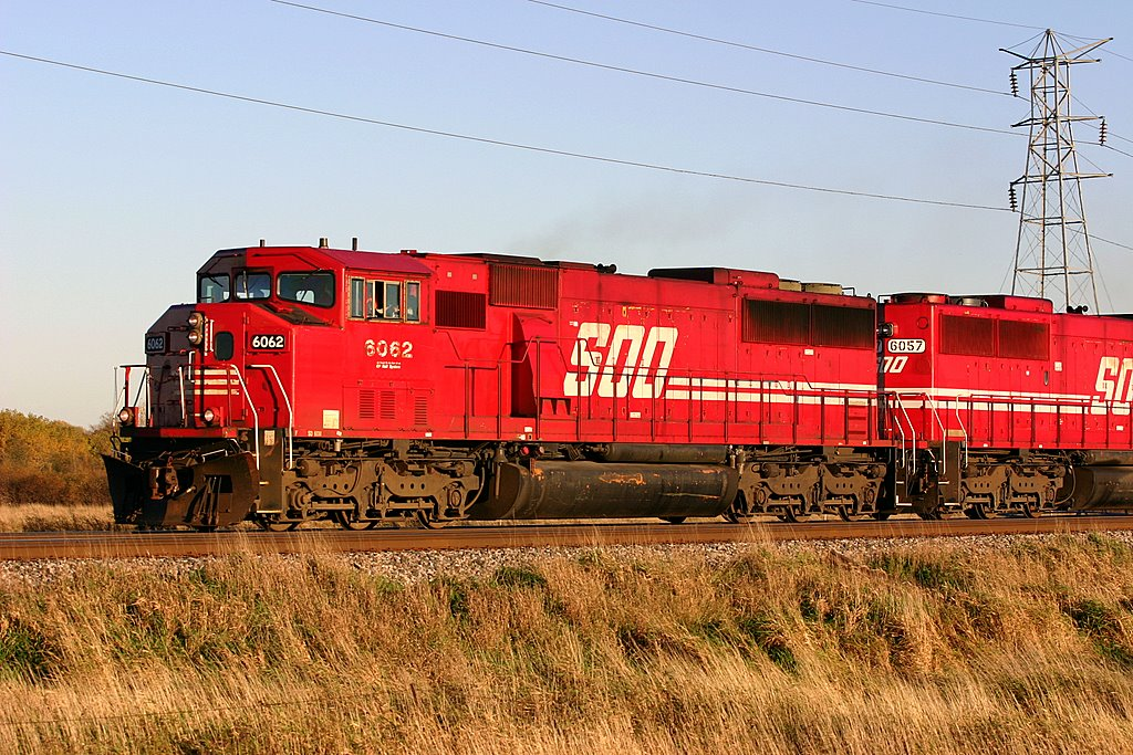 Soo Line Railroad SD60M and SD60 team up through WI